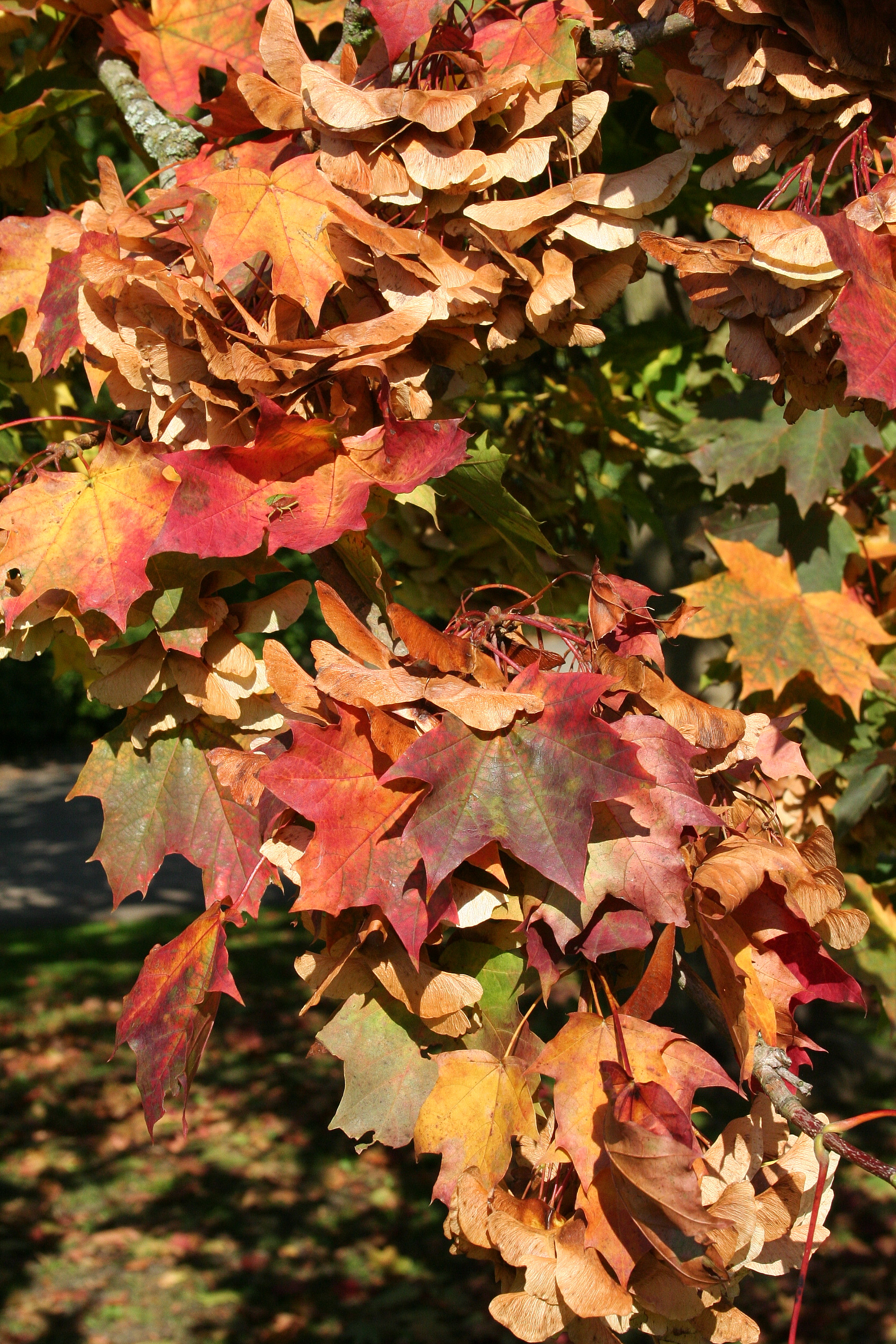 Acer platanoides leaves in the beginning of the autumn.